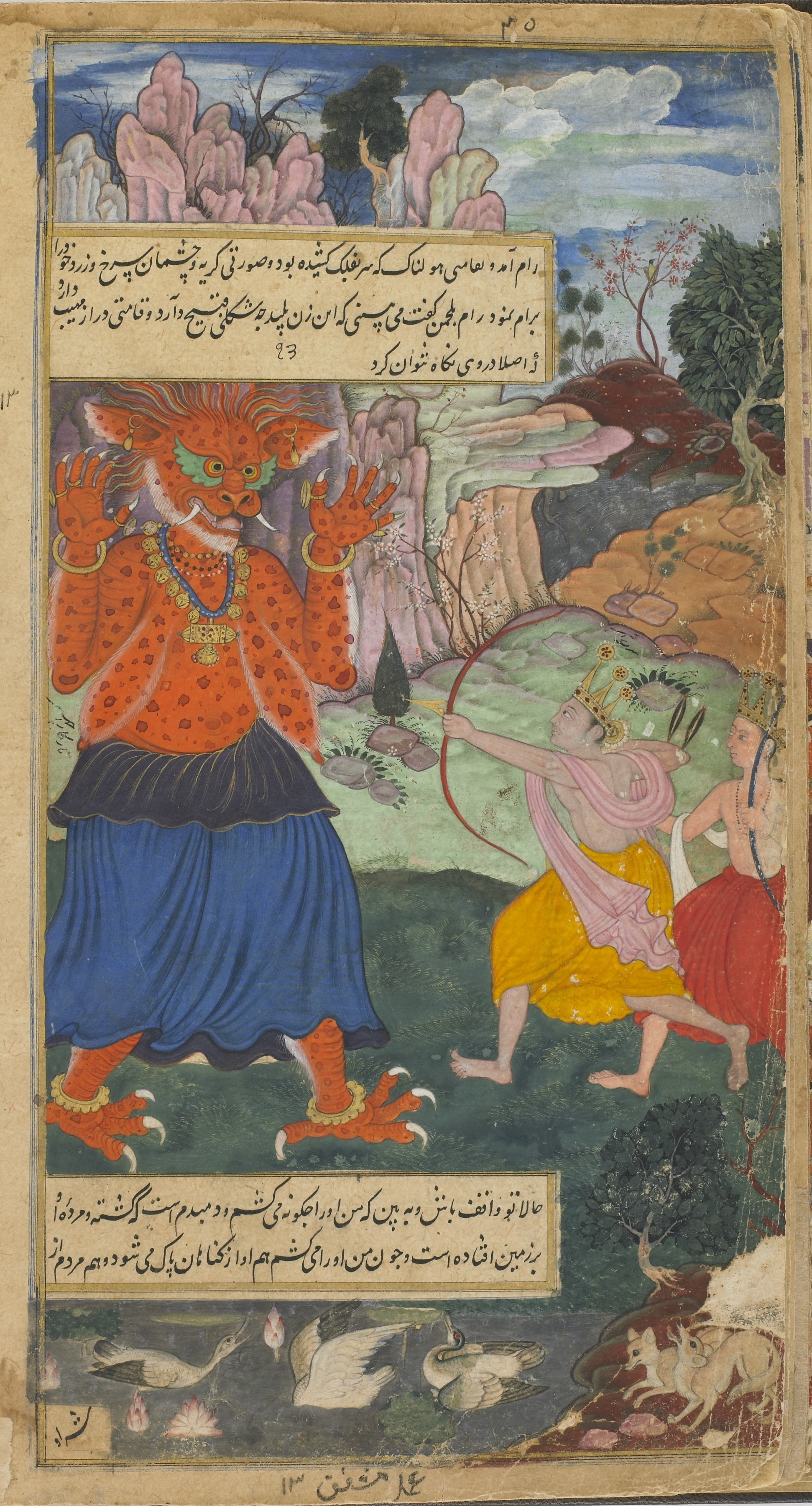 Folio from the Ramayana of Valmiki (The Freer Ramayana), Vol. 1, folio 35; recto: text; verso: Rama and Laksmana attack Tataka 1597-1605 Mushfiq , (Indian, Mughal dynasty Opaque watercolor, ink, and gold on paper H: 25.6 W: 13.7 cm Northern India Gift of Charles Lang Freer F1907.271.35